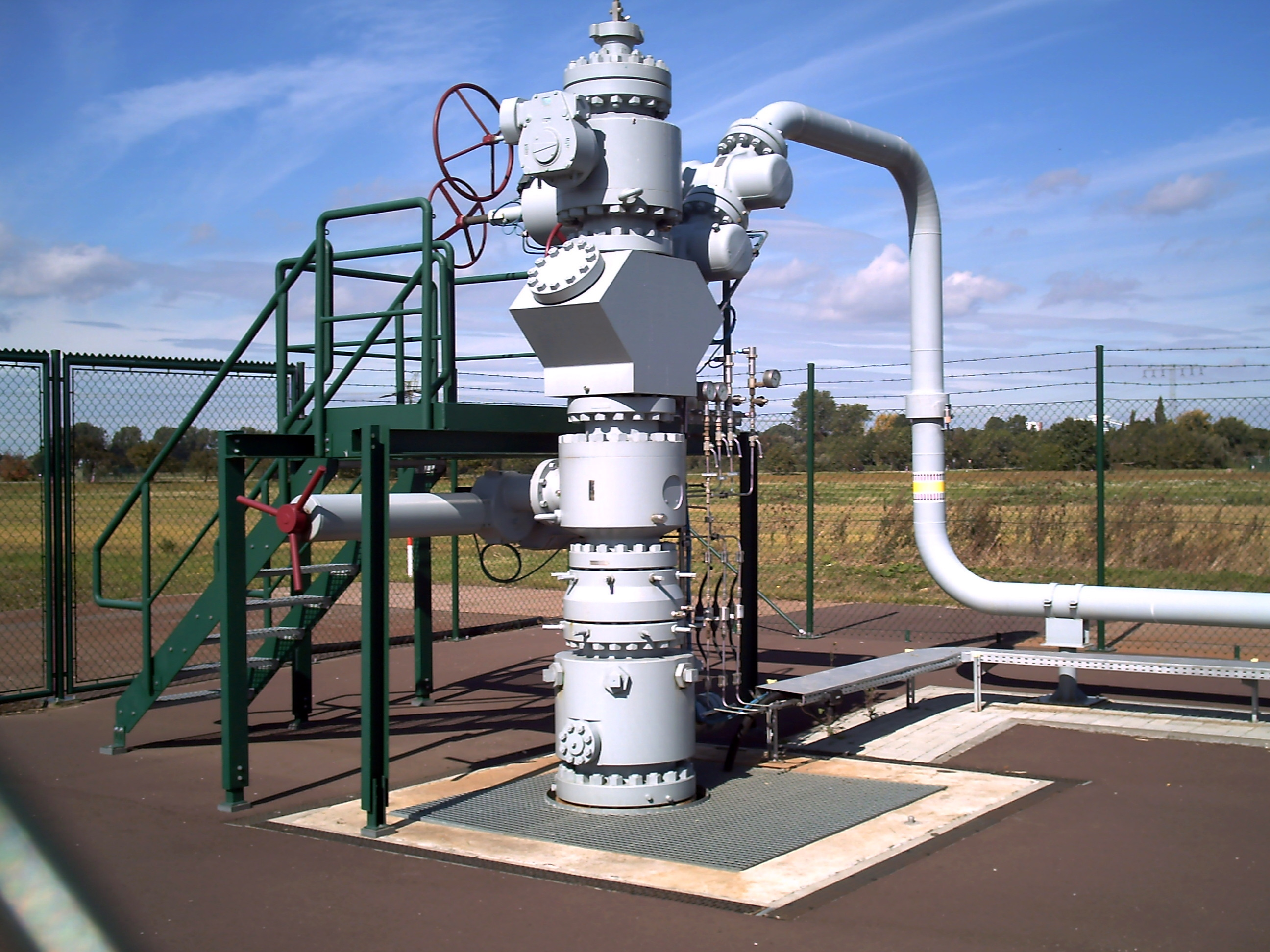 Wellhead high pressure Hartmann Valves GmbH